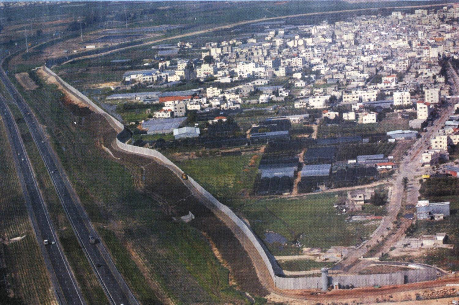 صور جوية لجدار الفصل العنصري الذي يحيط مدينة قلقيلية من الجهات الاربع